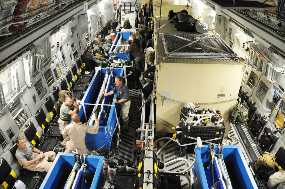 NOUMEA, New Caledonia (Nov. 8, 2009) Navy and Air Force personnel manage dolphins aboard a C-17 Globemaster III aircraft en route to New Caledonia. Four dolphins from the Navy Marine Mammal Program based in San Diego, Calif. are being transported to Noumea, New Caledonia where they will participate in Lagoon Minex 2009, a humanitarian project where U.S,. French, Australian and New Zealand demolition crews will remove mines left over from World War II. (U.S. Air Force photo by Tech. Sgt. Cohen A. Young/Released)